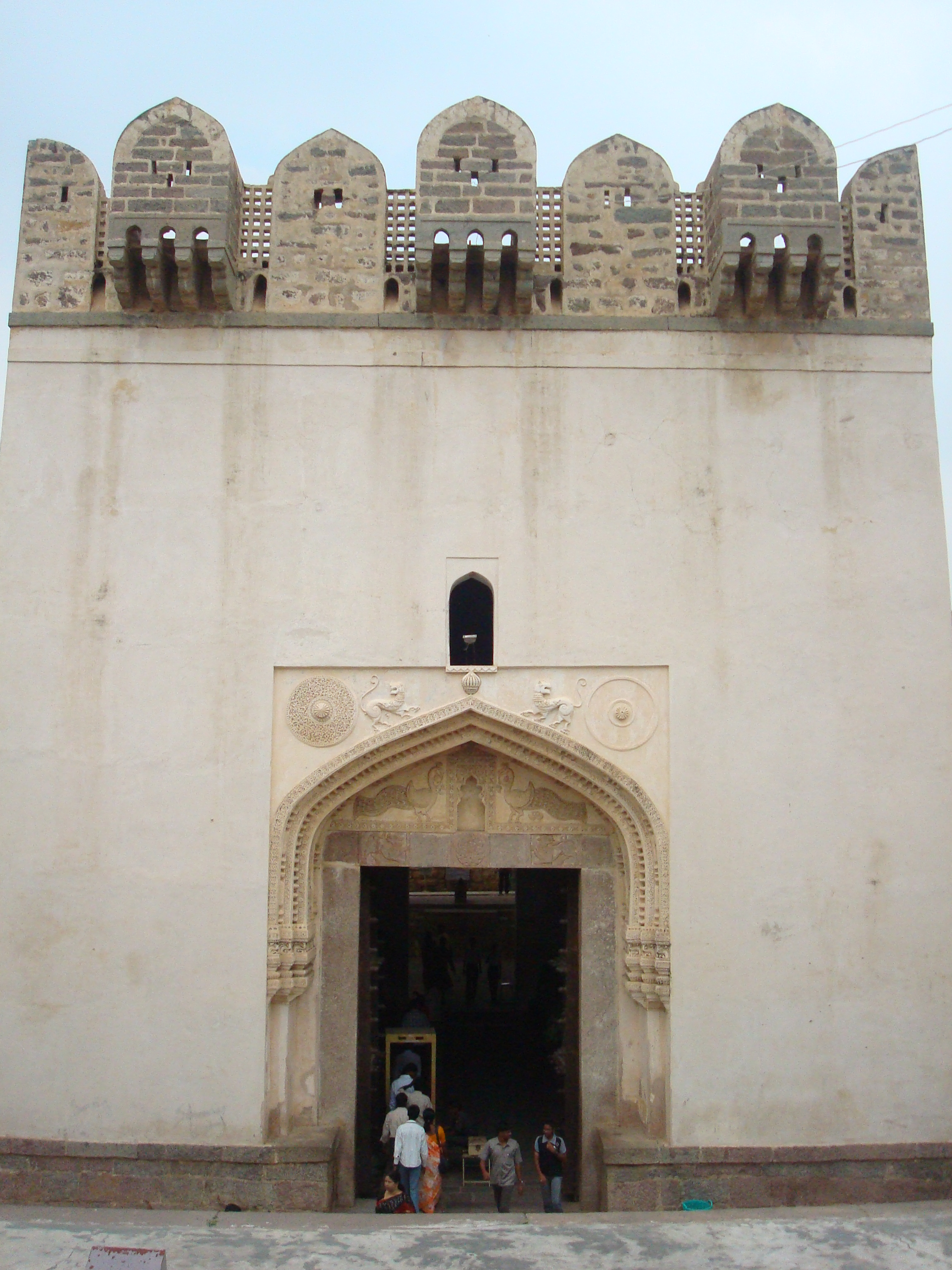 A gate at Golconda fort.